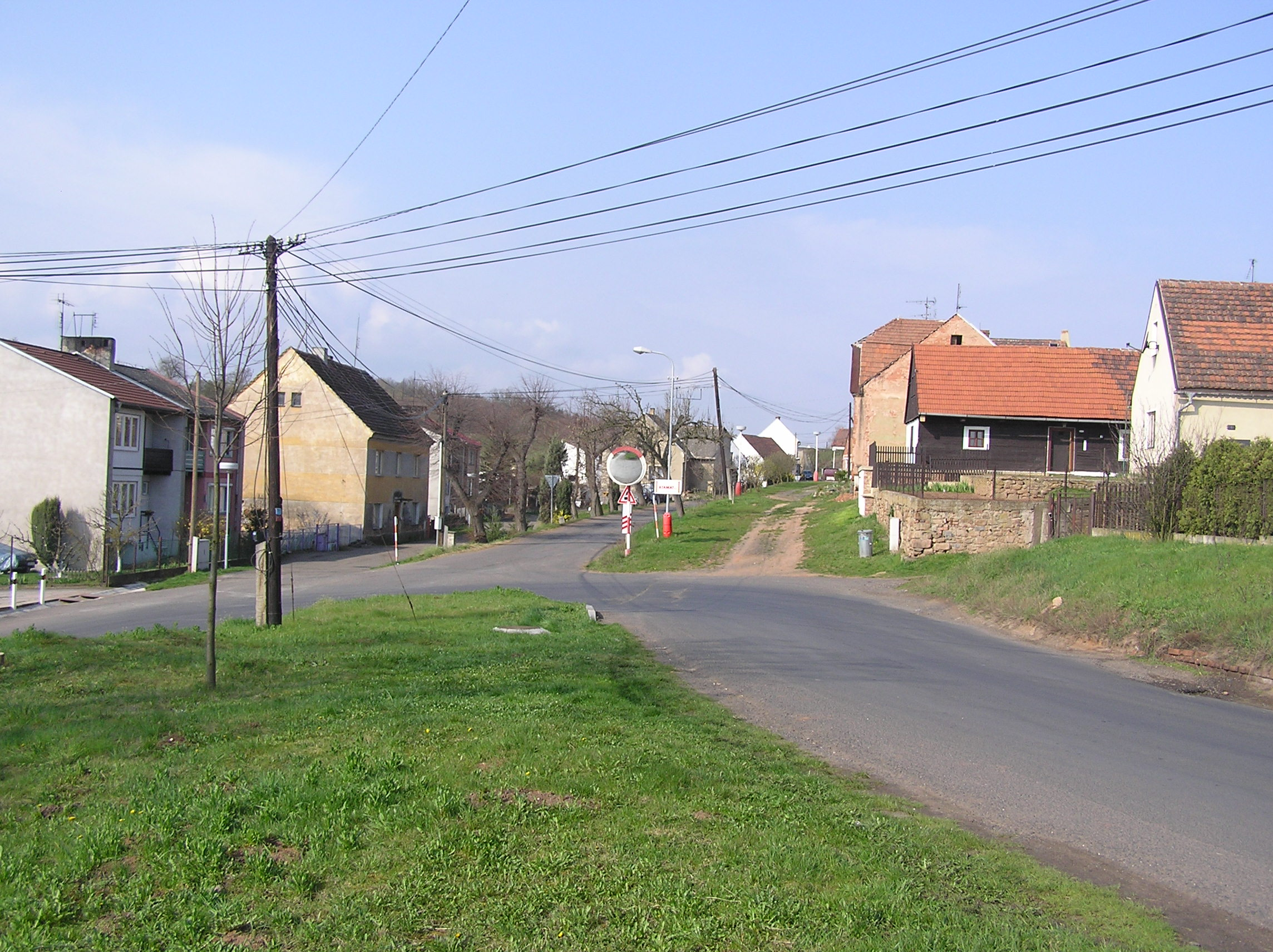 Village square in Černčice